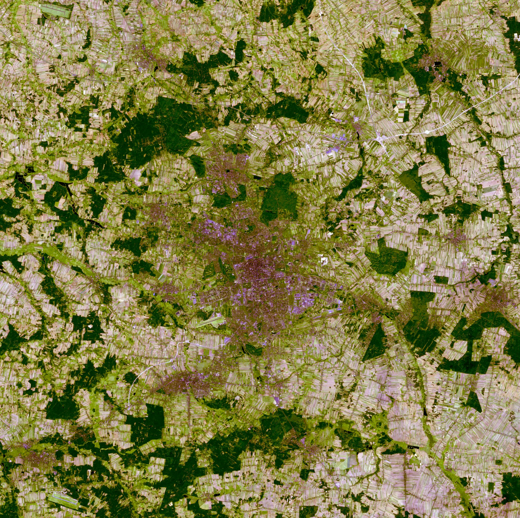 Łódź and vicinities, Poland, LandSat-5 false color satellite image, false color bands 7, 5, 3, spatial resolution 30 m, acquisition date 2011-09-26